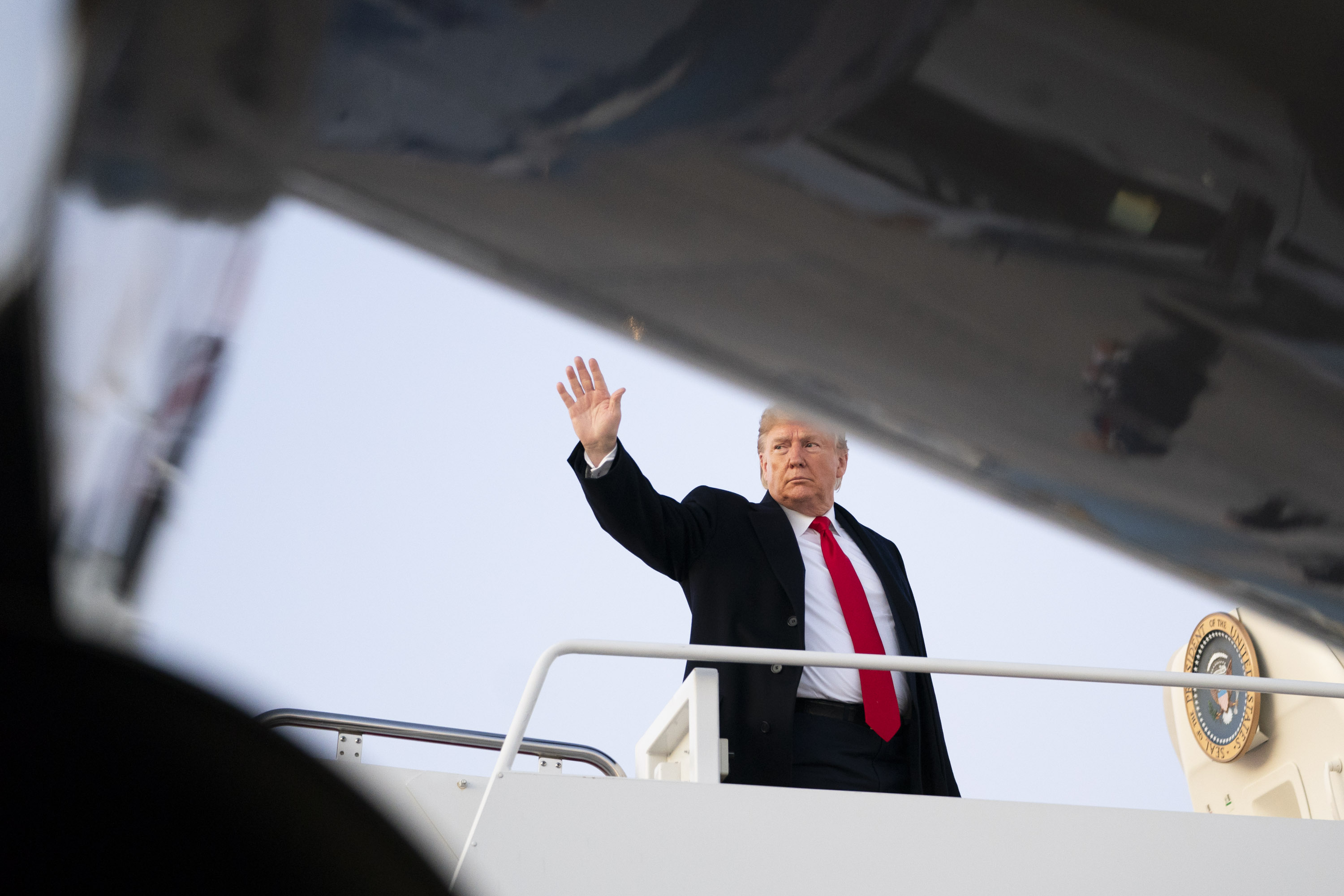 President Donald J. Trump boards Air Force One at Joint Base Andrews, Md. Wednesday, Nov. 6, 2019, en route to Monroe Regional Airport in Monroe, La. (Official White House Photo by Joyce N. Boghosian)